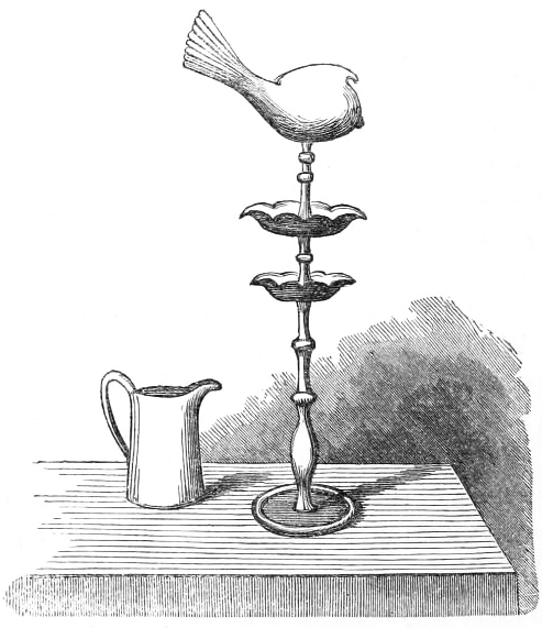 Sketch of a Yazidi figure of Melek Taus, from The Nestorians and their Rituals (1852) by George Percy Badger, seen at Bashiqa in 1850